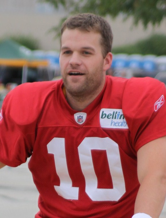 Green Bay Packers back-up quarterback Matt Flynn wearing a red practice jersey during pre-season training camp, Green Bay Wisconsin , August 5, 2011